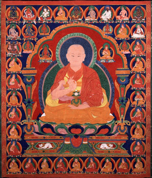 The Ngor Abbot Sanggye Sengge as Lineal Guru of the Path with the Fruit, Tibet; 1580s-1590s. Distemper on cotton, 48 x 26 in. Rubin Museum of Art